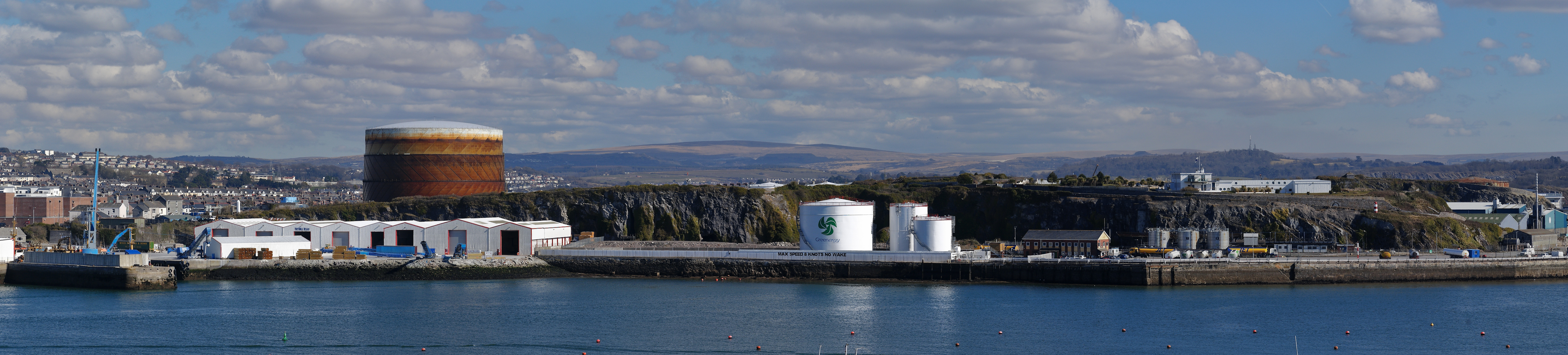 A stitch showing the Cattewater docklands area at the mouth of the River Plym at Plymouth, Devon, UK. The south western edge of Dartmoor can be seen in the distance. Taken from Mount Batten.